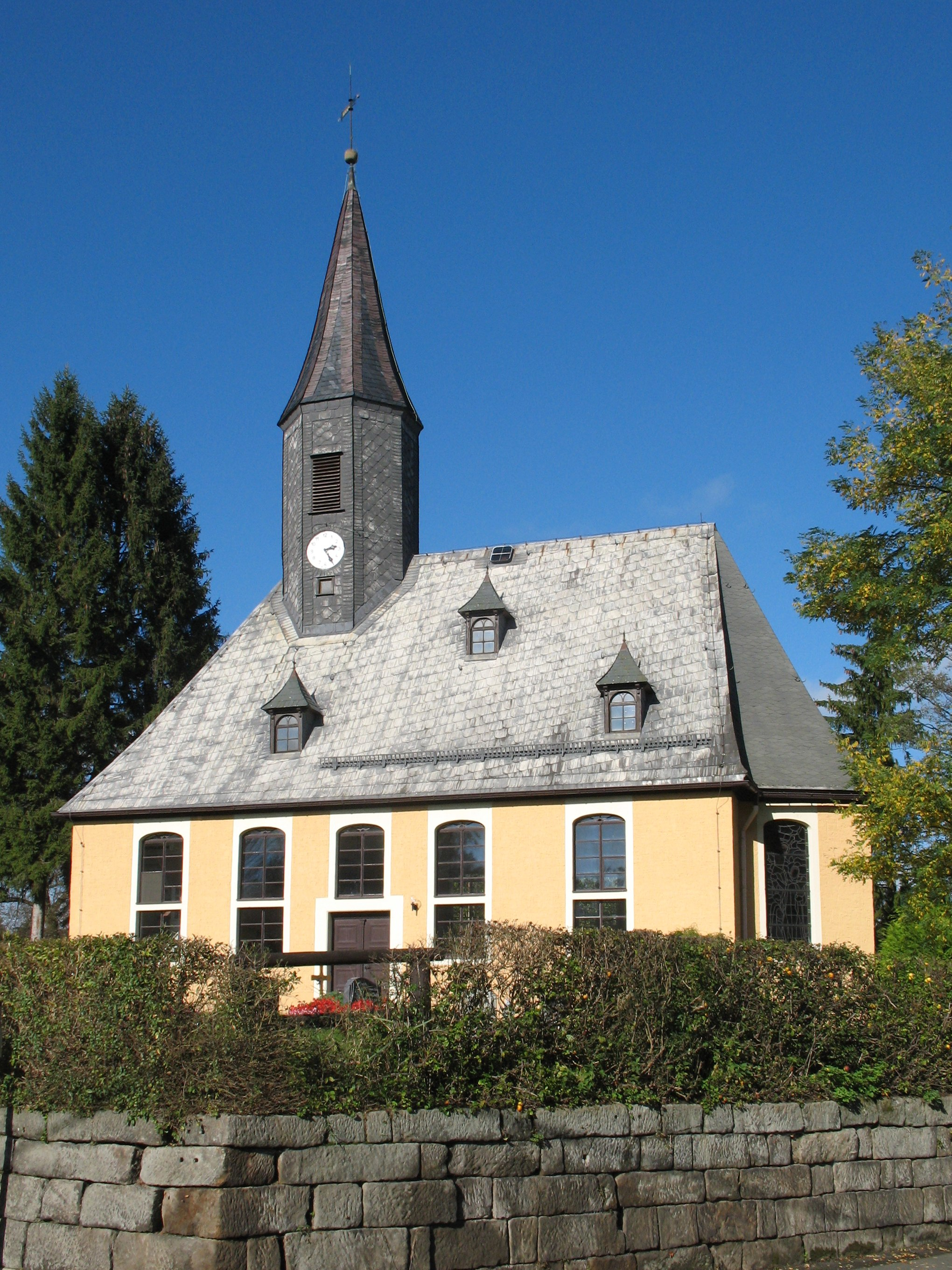 Church in Hohnstein-Rathewalde in Saxony, Germany